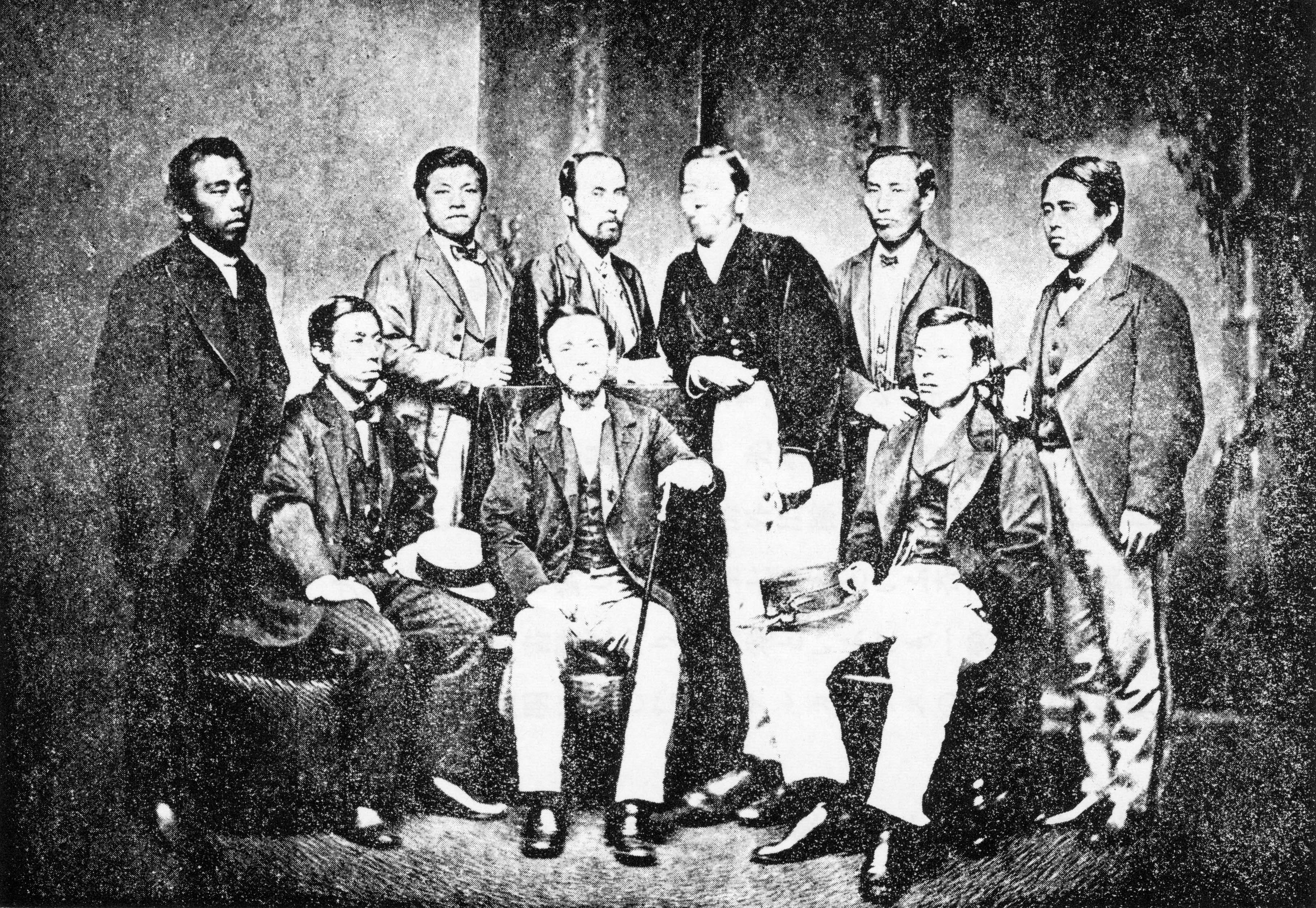 Members of Japanese inspection team in San Francisco. Back row (from left): Niwa (from Nagoya Domain), Ōhigashi Gitetsu (from Hikone Domain), Kagawa (from Okayama Domain), Niwa (from Nagoya Domain), Tsuda Kōdō (from Okayama Domain), Kataoka Kenkichi (from Kōchi Domain). Front row (from left): Hoshiai Tsunenori (from Tokushima Domain), Ban Masayori (from Kōchi Domain), Yamamoto (from Tokushima Domain).